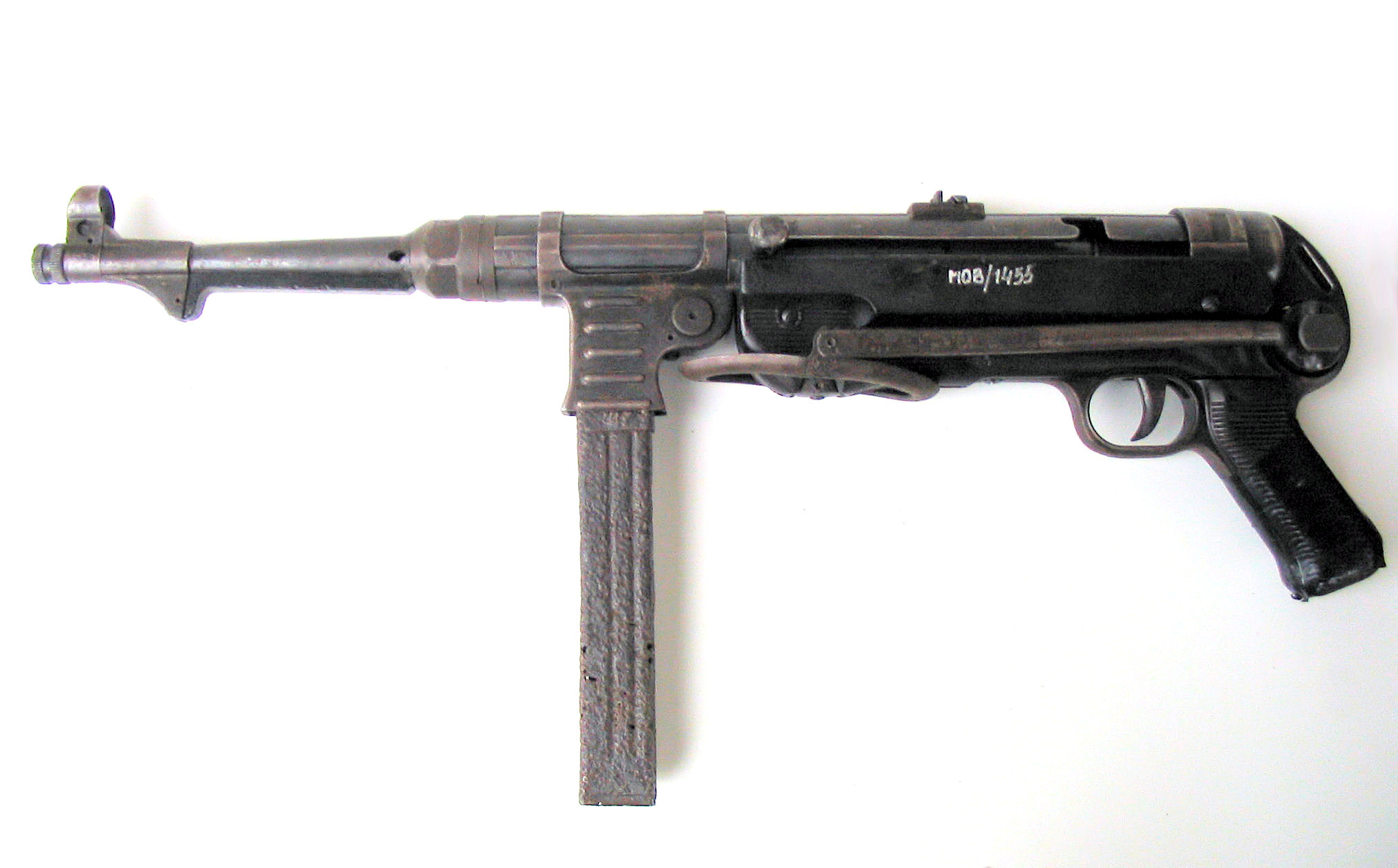 German MP-40 submachine gun Aparat/Camera: Canon PowerShot A75